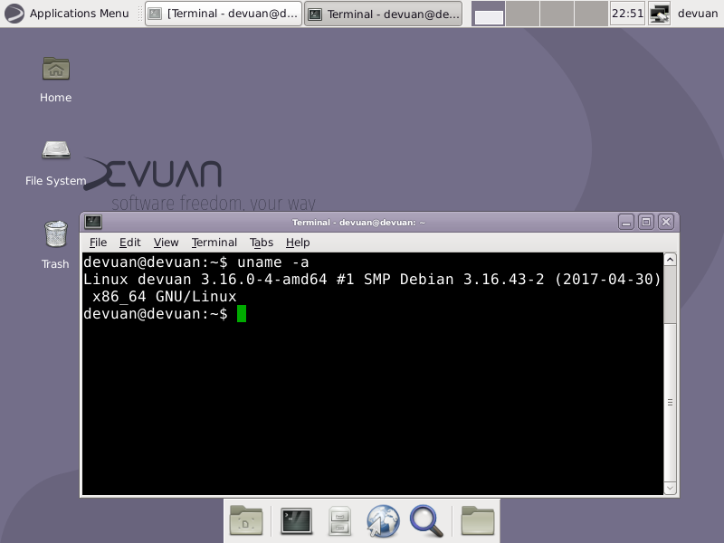 English screenshot of Devuan